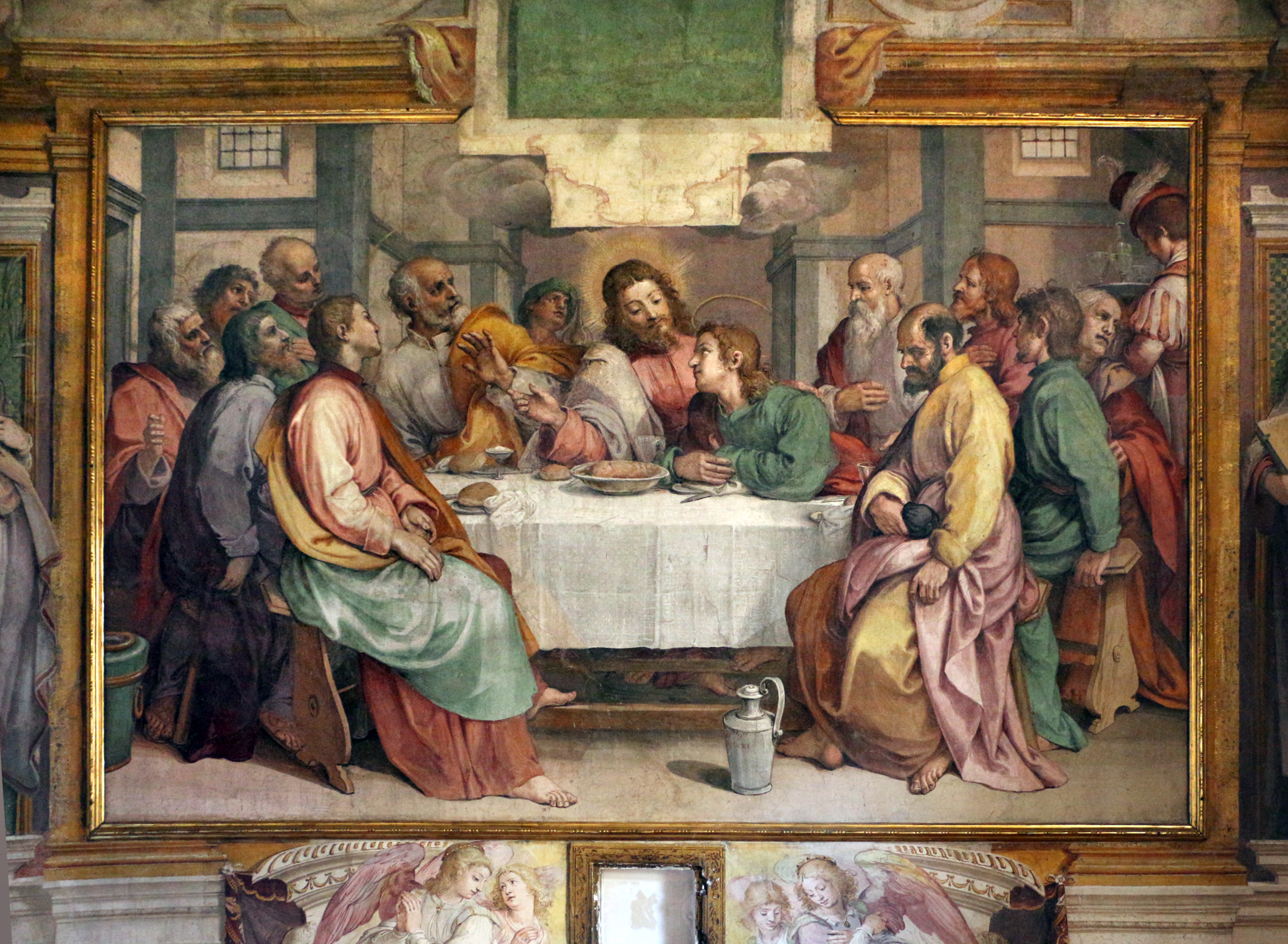 Sant'Apollonia (Florence)